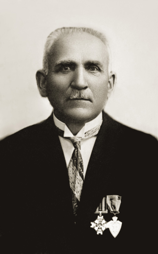 Saliamonas Banaitis, one of the signatories of the Act of Independence of Lithuania. He wears Officer's Cross of the Order of the Lithuanian Grand Duke Gediminas and what looks like the Medal of the Liberation of Klaipėda.